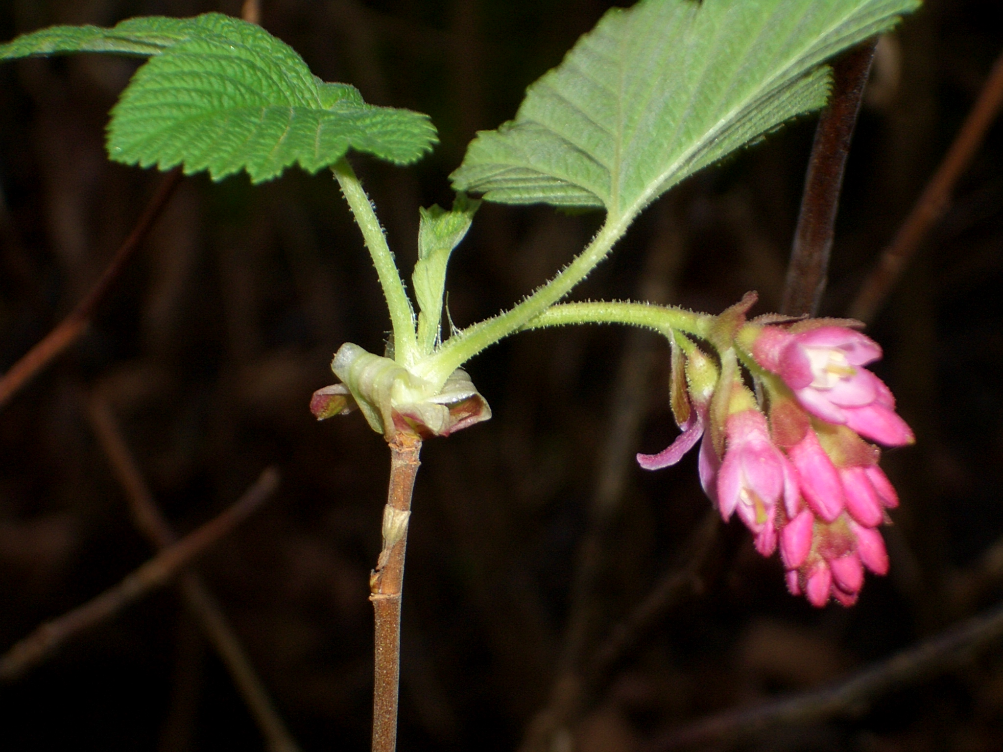 Ribes sanguineum flowering in Carkeek Park, Seattle